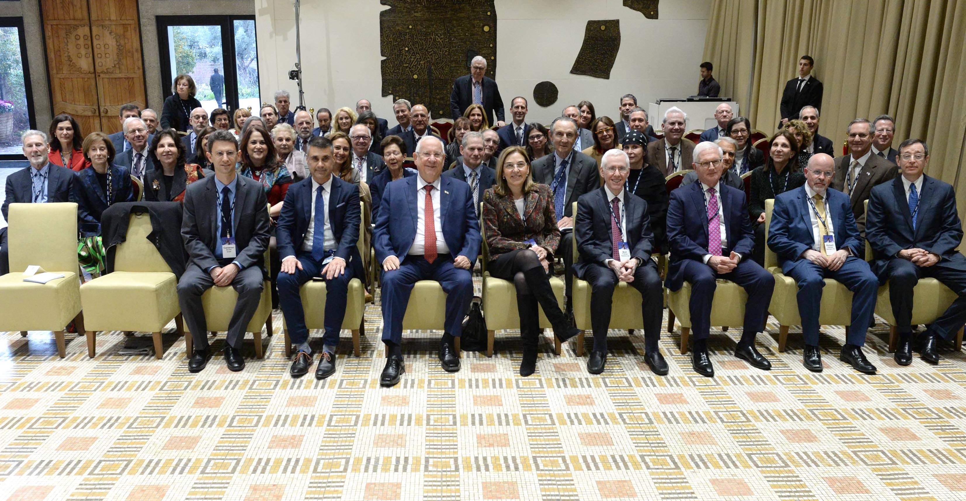 President of Israel, Reuven Rivlin, referred to the statements made by the Chairman of the Palestinian Authority during his meeting with the American Israel Public Affairs Committee (AIPAC) delegation. Monday, January 15, 2018. Photo Credit: Mark Neyman / GPO. Depicted person: Reuven Rivlin – Israeli politician, 10th President of Israel